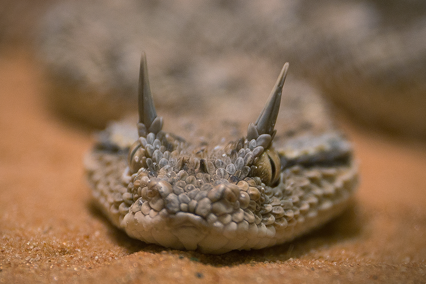 Cerastes gasperettii, commonly known as the Arabian horned viper, is a venomous viper species found especially in the Arabian Peninsula[2] and north to Israel, Palestine, and Iran. It is very similar in appearance to C. cerastes, but the geographic ranges of these two species do not overlap.[5] No subspecies of C. gasperettii are currently recognized.